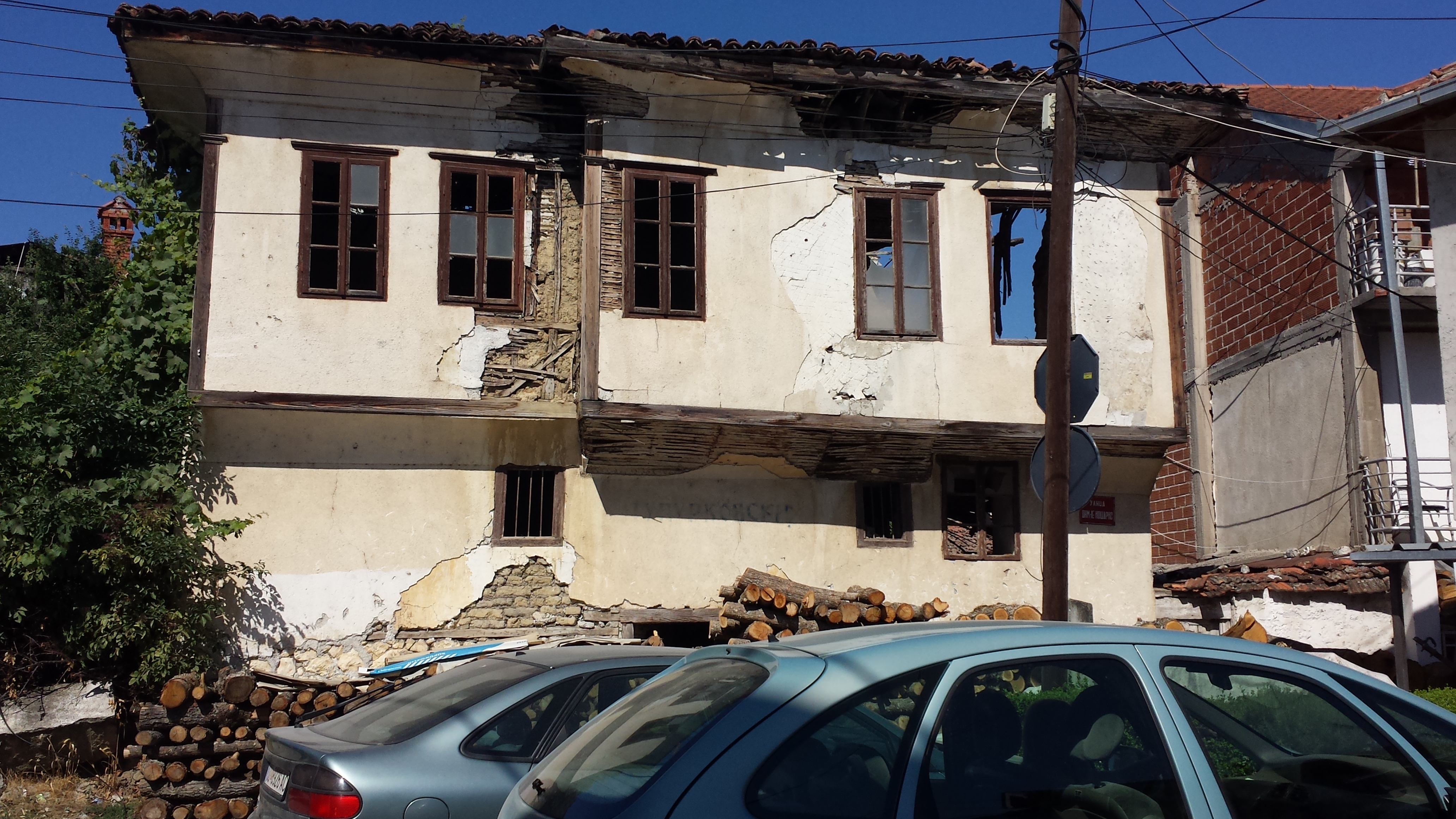 Monument in poor condition